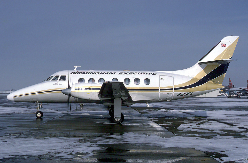 Birmingham Executive Airways British Aerospace BAe-3102 Jetstream 31 G-OBEA at Euroairport